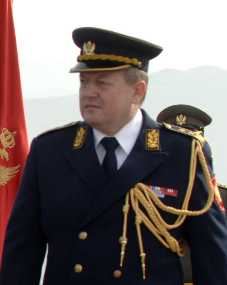 Defense Secretary Donald H. Rumsfeld is escorted by Lt. Gen. Jovan Lakcevic, chief of general staff, during an honor cordon at Podgorica Airport, Montenegro, Sept. 26, 2006. Rumsfeld is visiting Montenegro, the world’s newest country, to recognize its independence and encourage its integration with the rest of Europe.